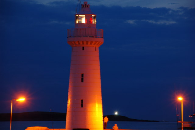 Donaghadee lighthouse at twilight. The best way to appreciate a lighthouse is at night. This is Donaghadee light just after sunset but with some light still left in the sky. The light on the middle horizon (to the right of the lighthouse) is Mew Island lighthouse (commonly called “The Copelands lighthouse”).